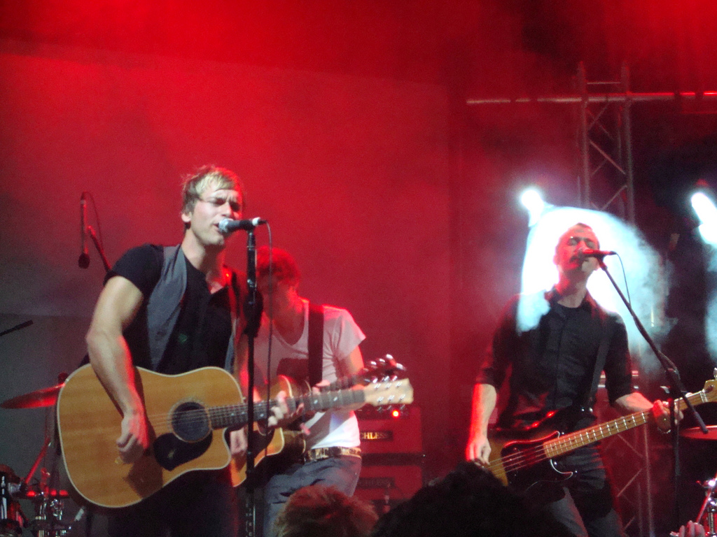 The Australian rock band The Sundance Kids performing in support of Evermore on the Perth leg of their Australian tour in June 2009.